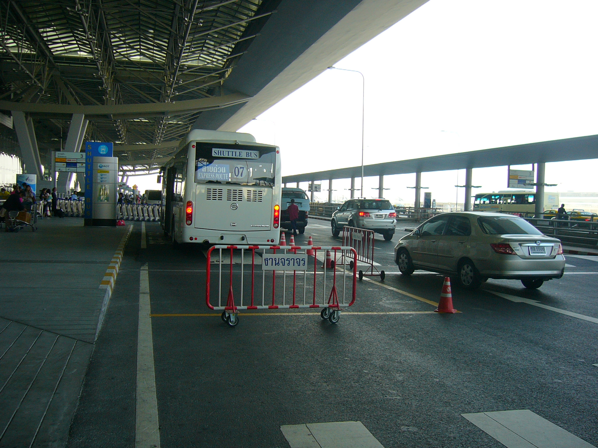 Suvarnabhumi International Airport Shuttle bus to Bangkok.